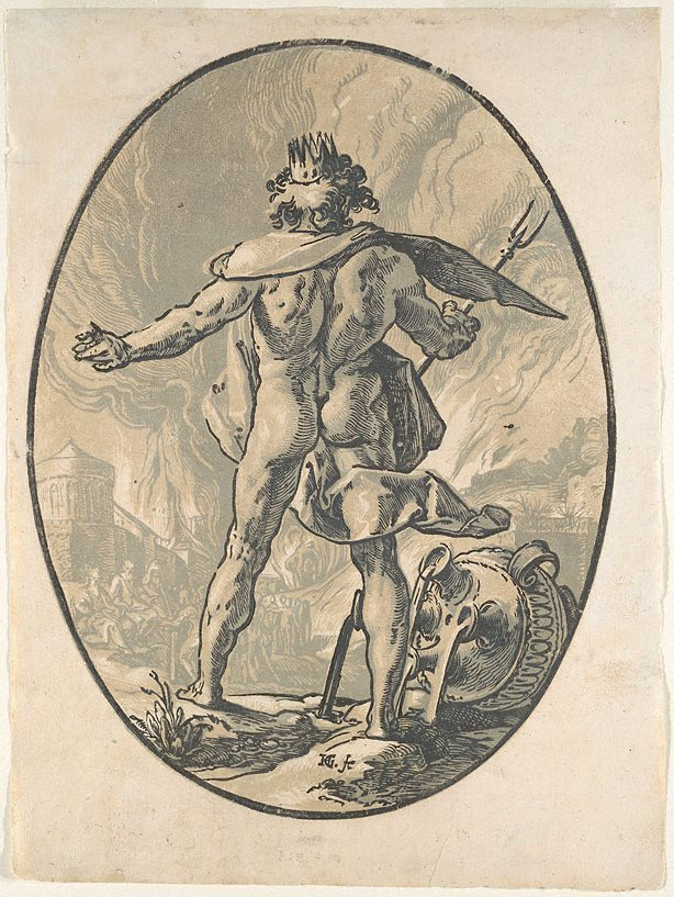 from the series Gods and goddesses.